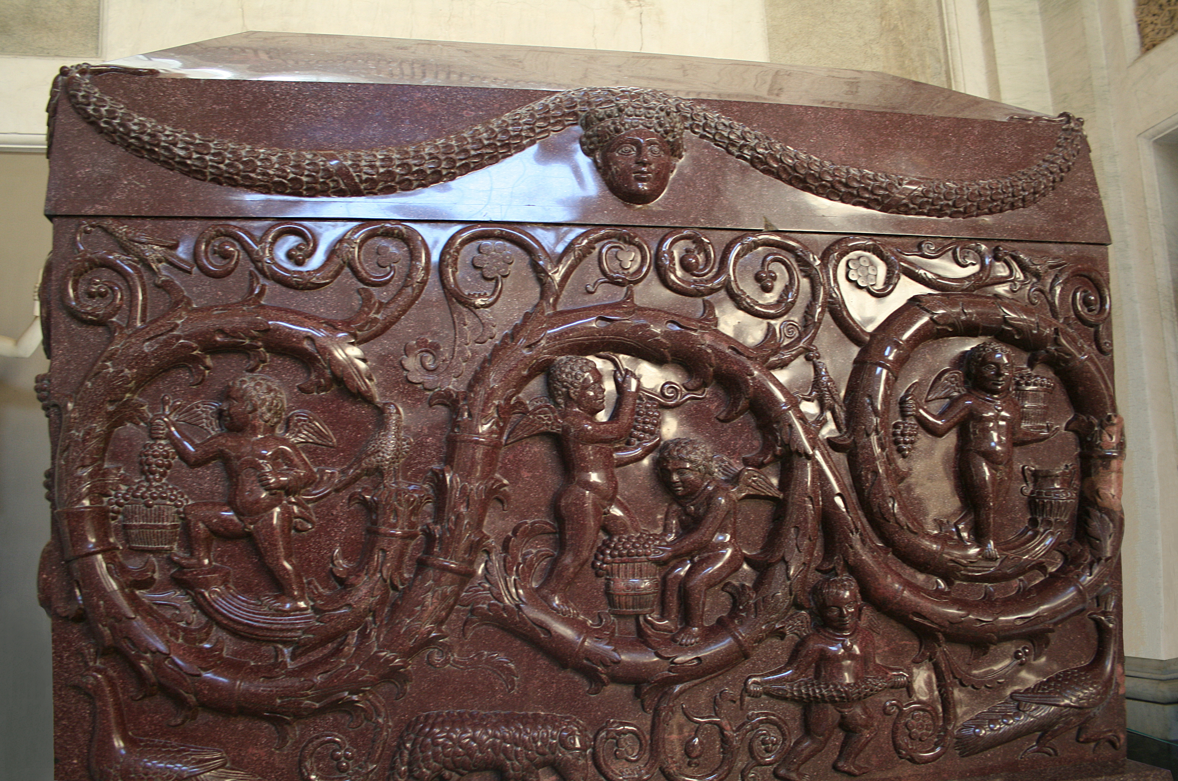 Sarcophagus of Constantina (daughter of emperor Constaninus I, also known as Saint Constance), sculpted around 340 AD. Formerly in the Mausoleo di Santa Costanza in Rome it is now on display at the Museo Pio-Clementino in the Vatican City.